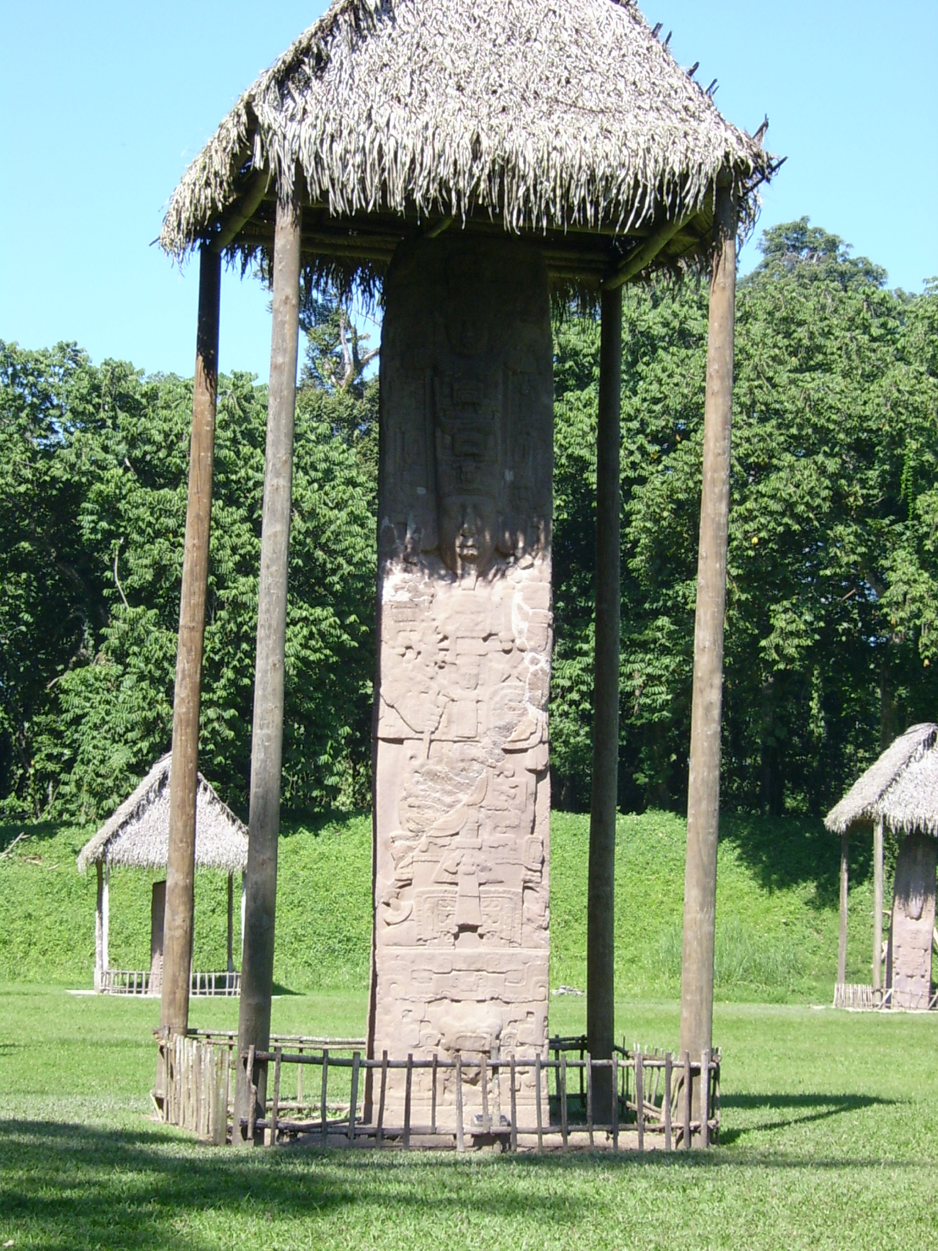 Stela E in Quiriguá, Guatemala, is 12 meters tall, making it the highest in Maya culture. It was erected on January 22, 771.